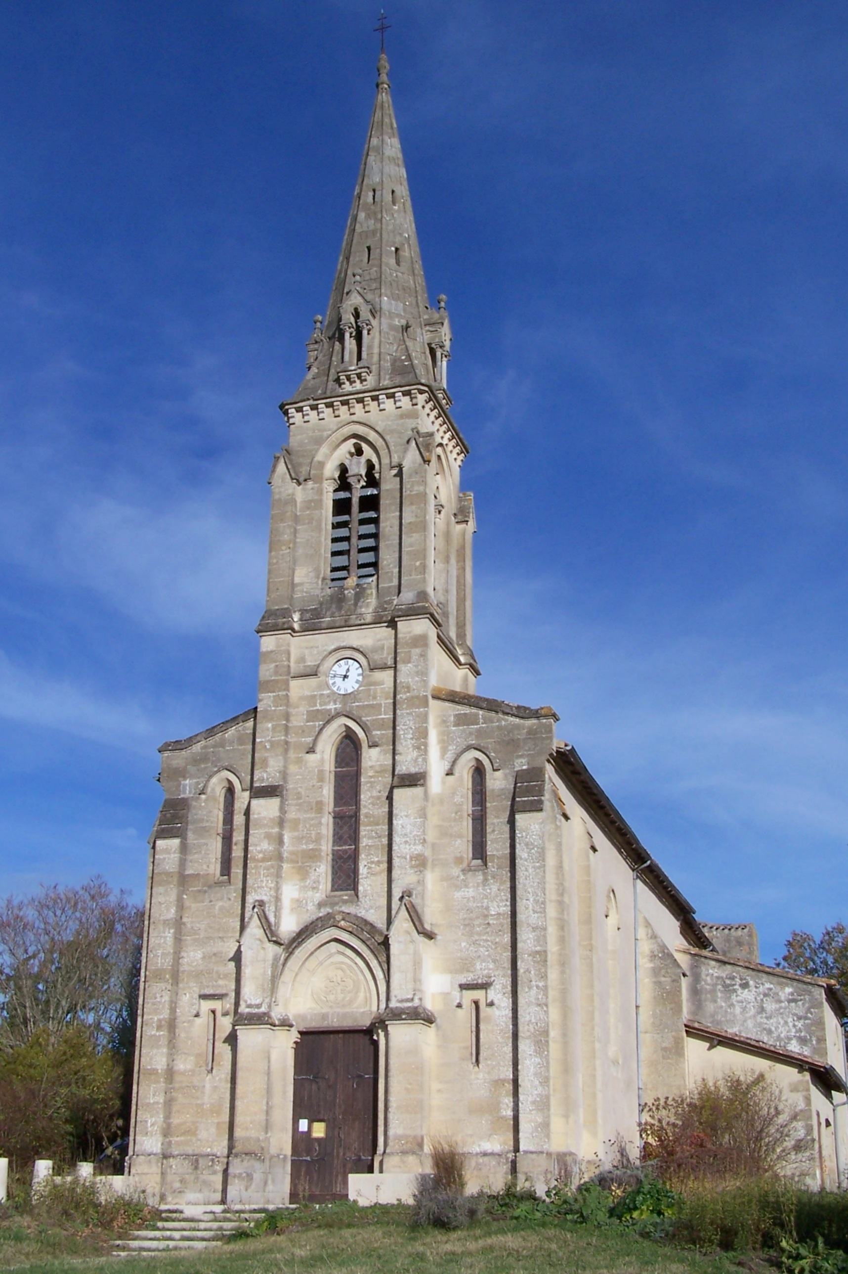 Church of Pompéjac (Gironde, France)